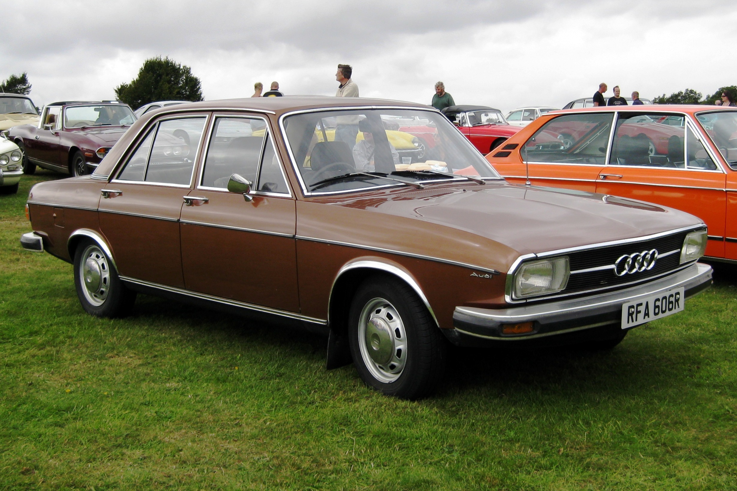 Audi 100LS C1 post facelift